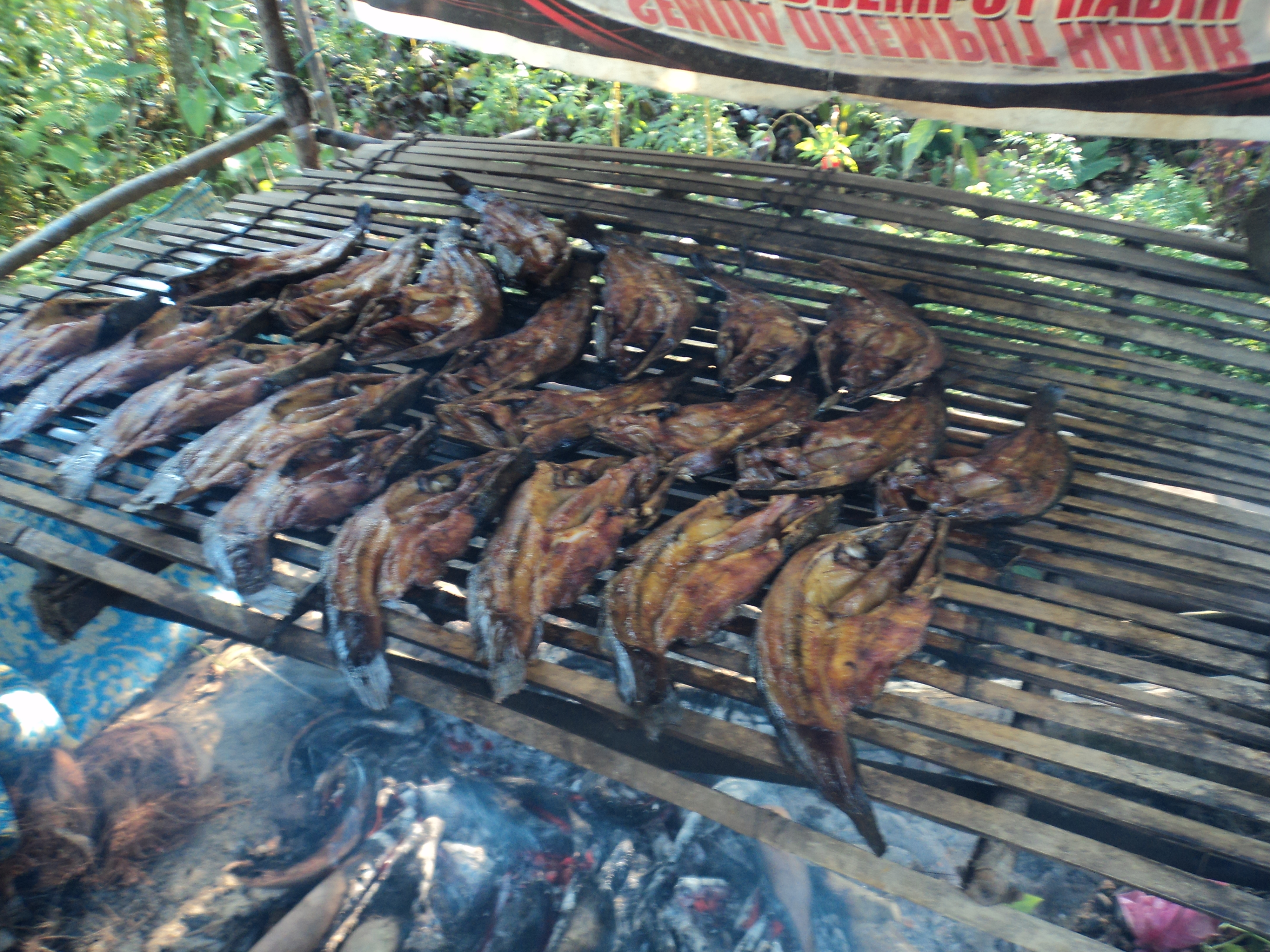 keli salai